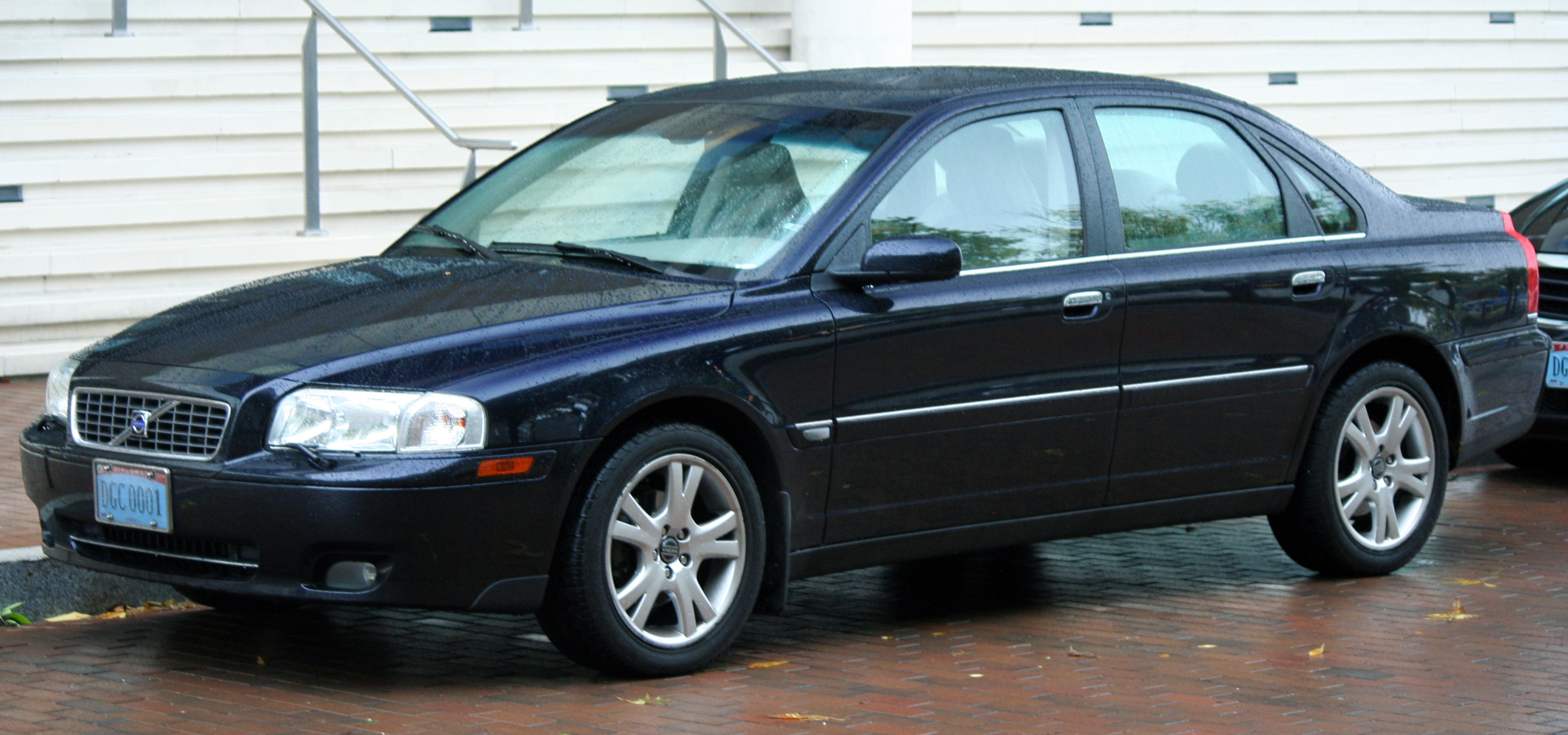 Post-facelift Volvo S80, suitably enough being used by the Swedish ambassador to the United States (Jonas Hafström).